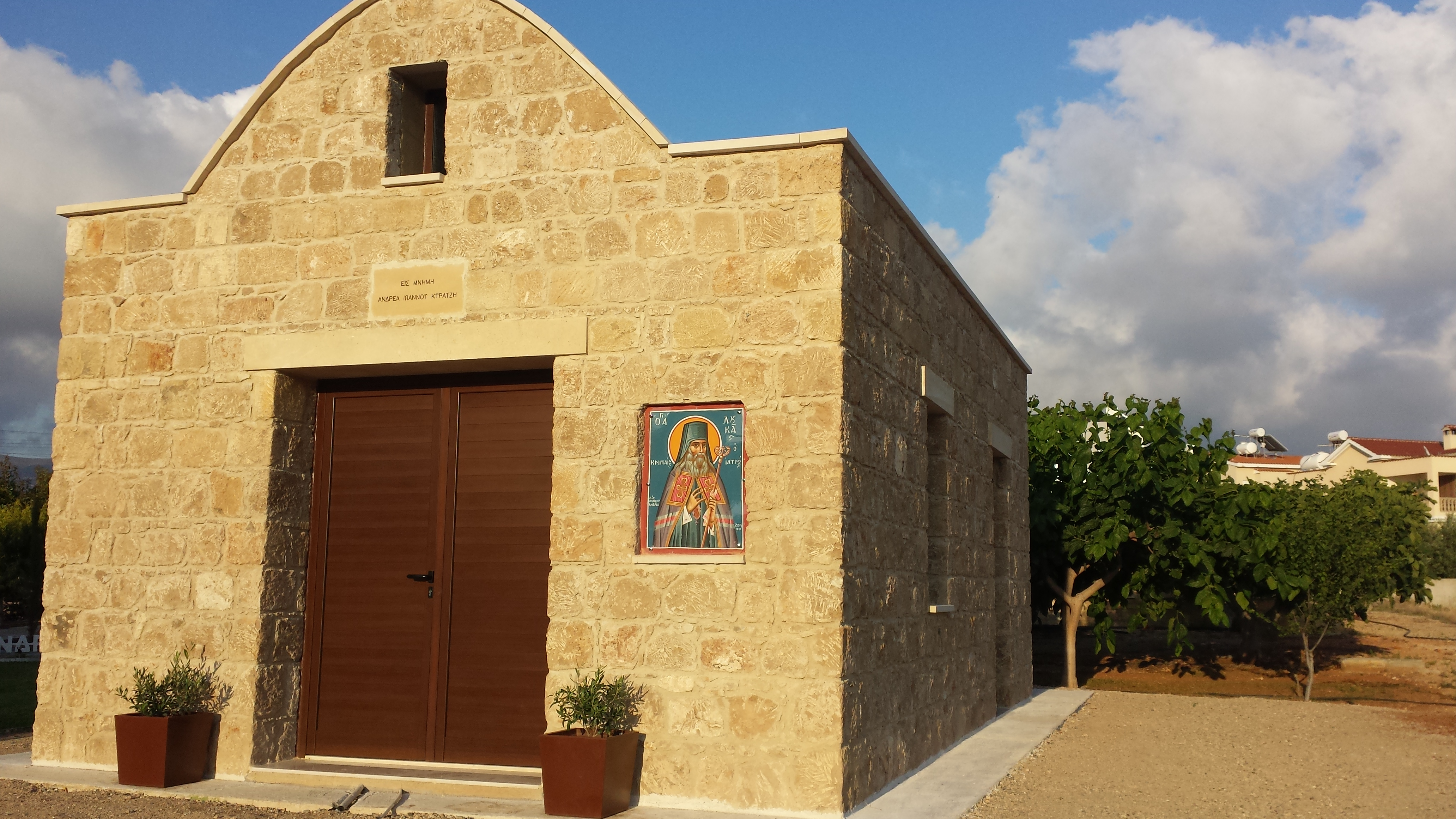 Chapel of St. Luke of Crimea, in Empa, Cyprus.